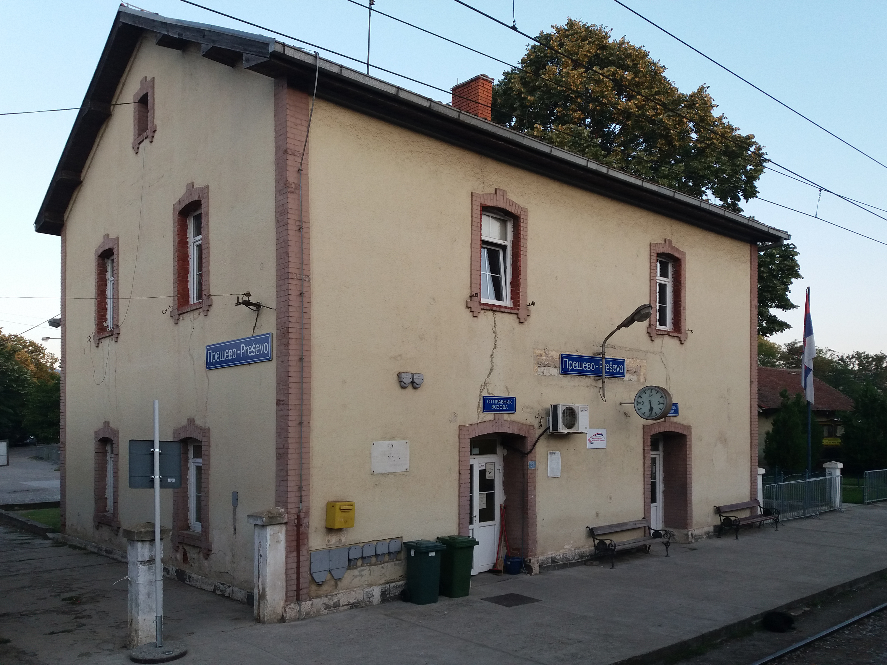 Serbian border railway station between Serbia and the Republic of Macedonia.